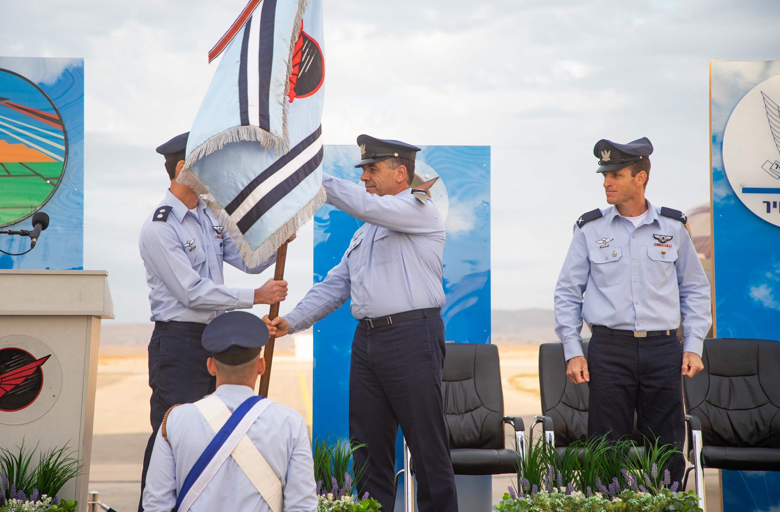 IDF’s new stealth squadron. “The Southern Lions”.